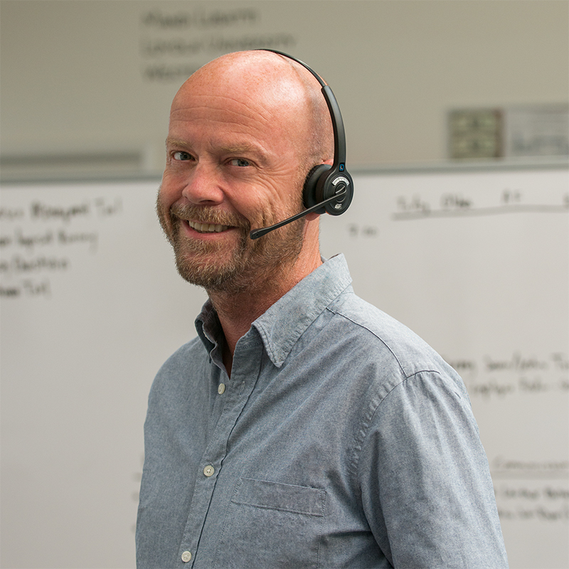 Picture of Mike Faith, CEO of